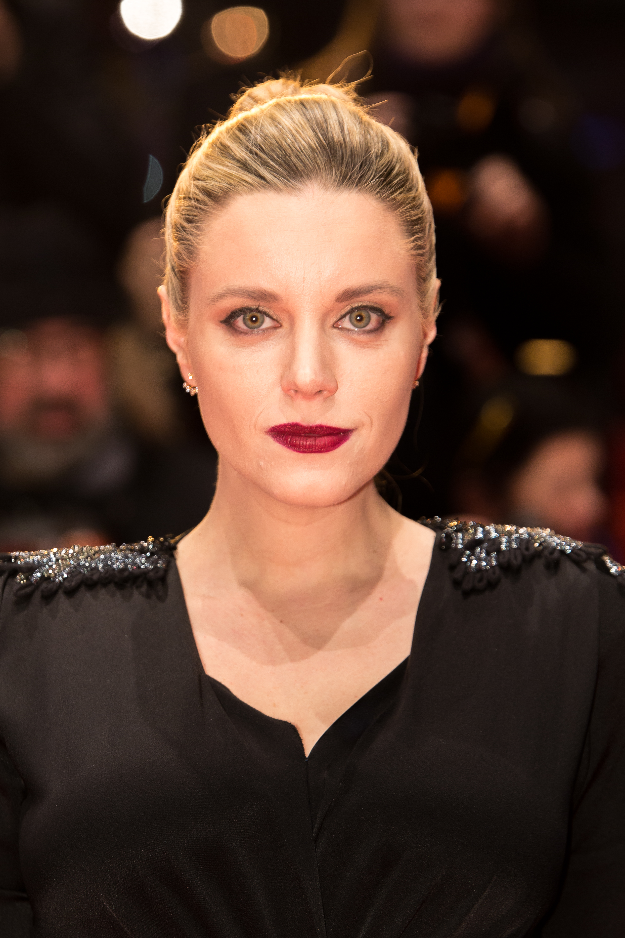 The producer and actress Carolina Bang presenting the movie The Bar at the Berlinale 2017